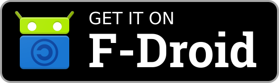 "Get it on F-Droid" badge, April 2016 version. Created by relan.